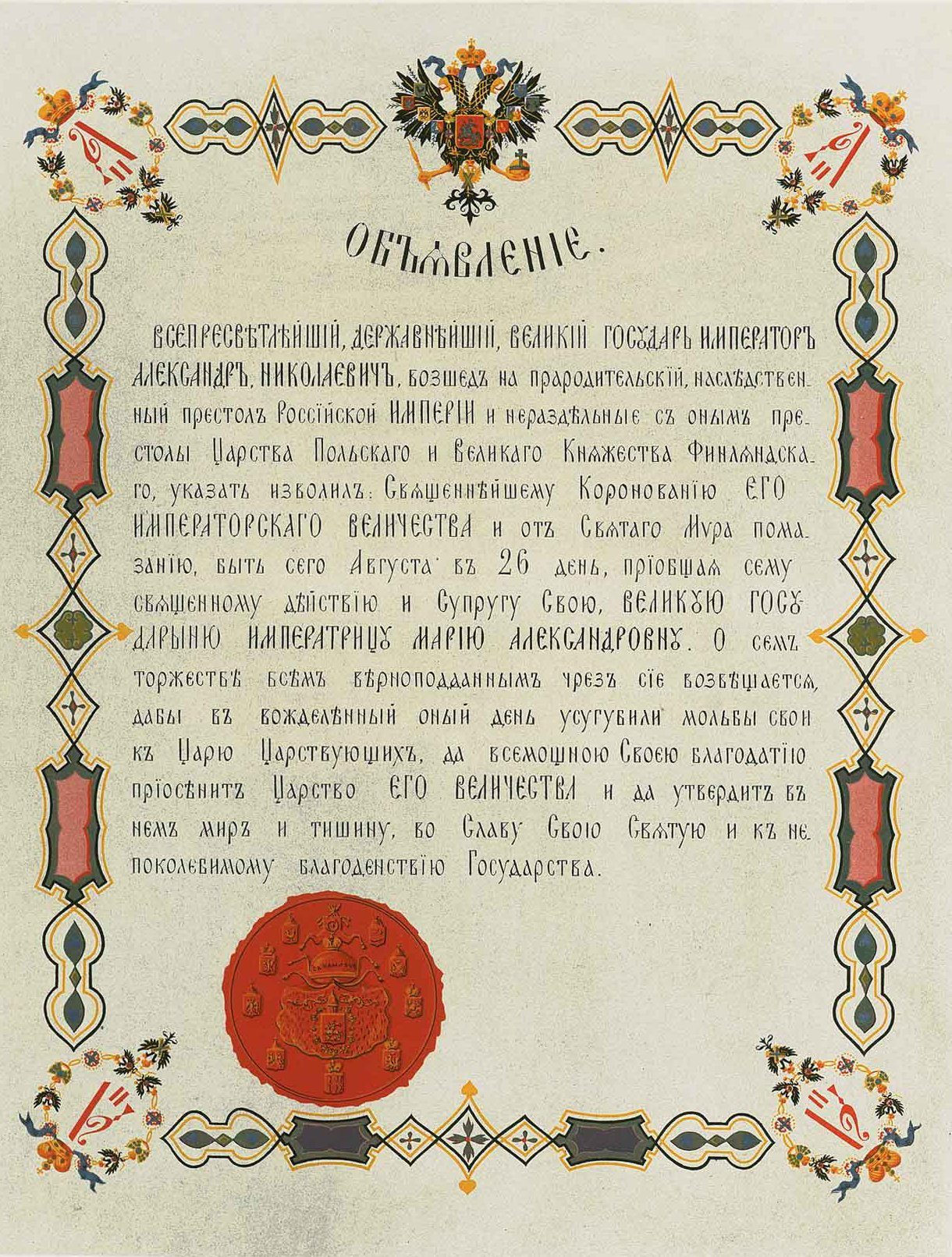 Proclamation of the Coronation / Faksimile: Originalurkunde der Proklamation zur Krönung und Salbung (Chromolithographie)